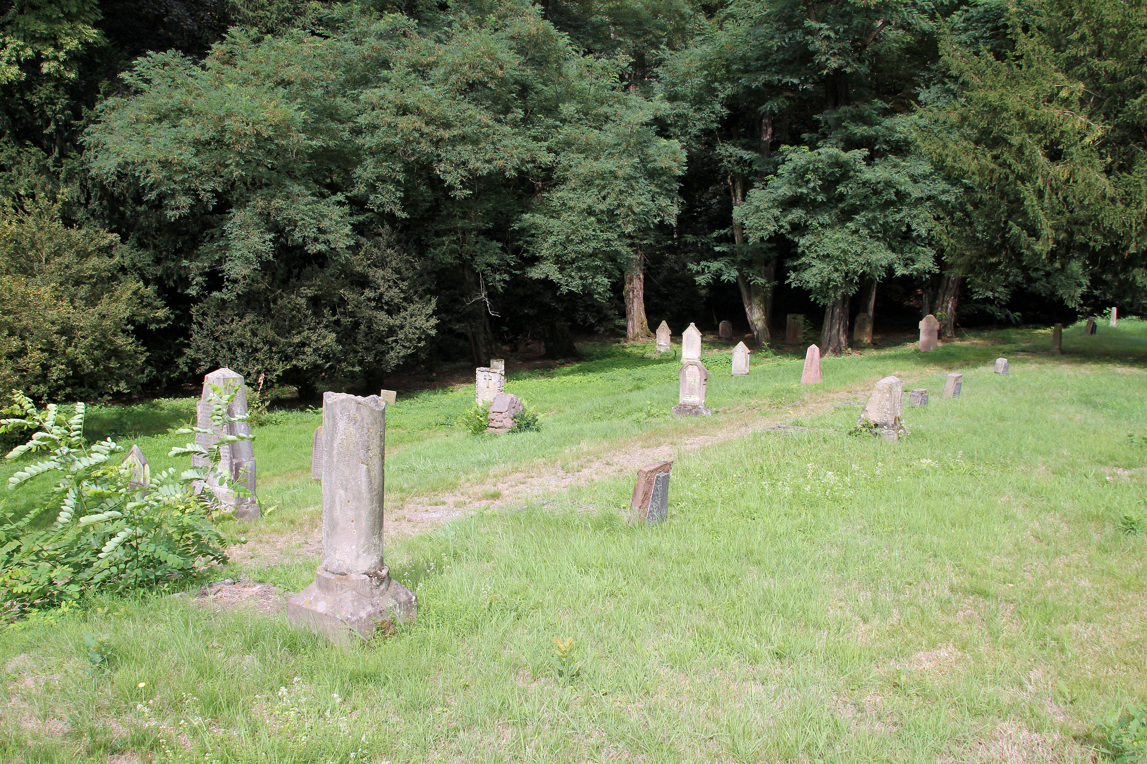 French military cemetary in Koblenz